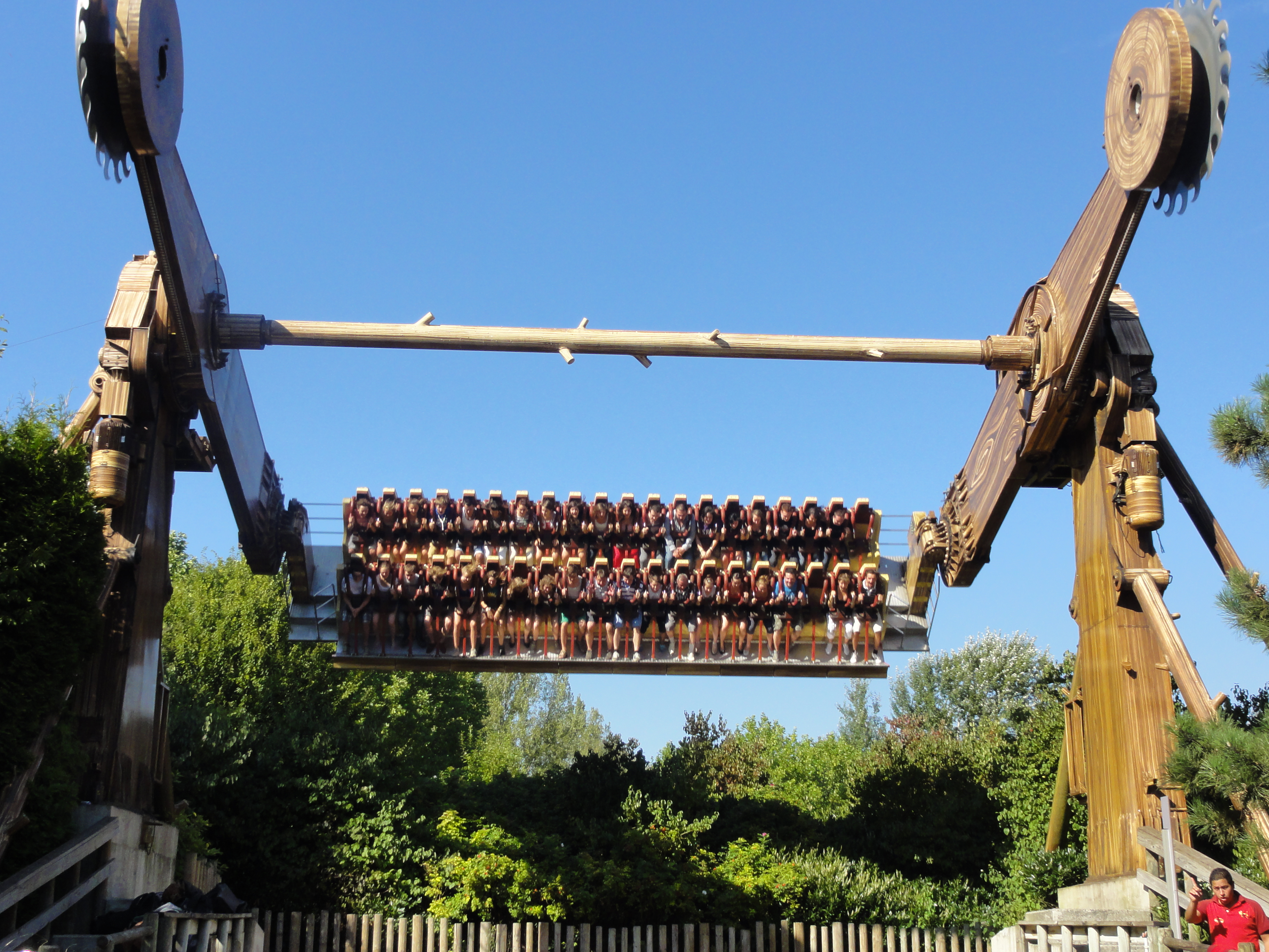 Buzzsaw, Walibi Belgium, Belgium.